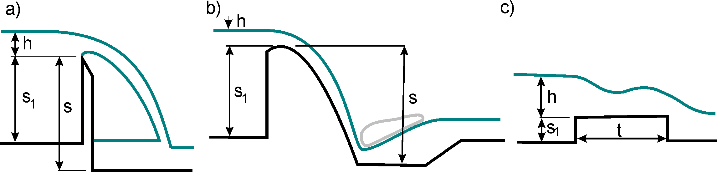 weir types basic 1